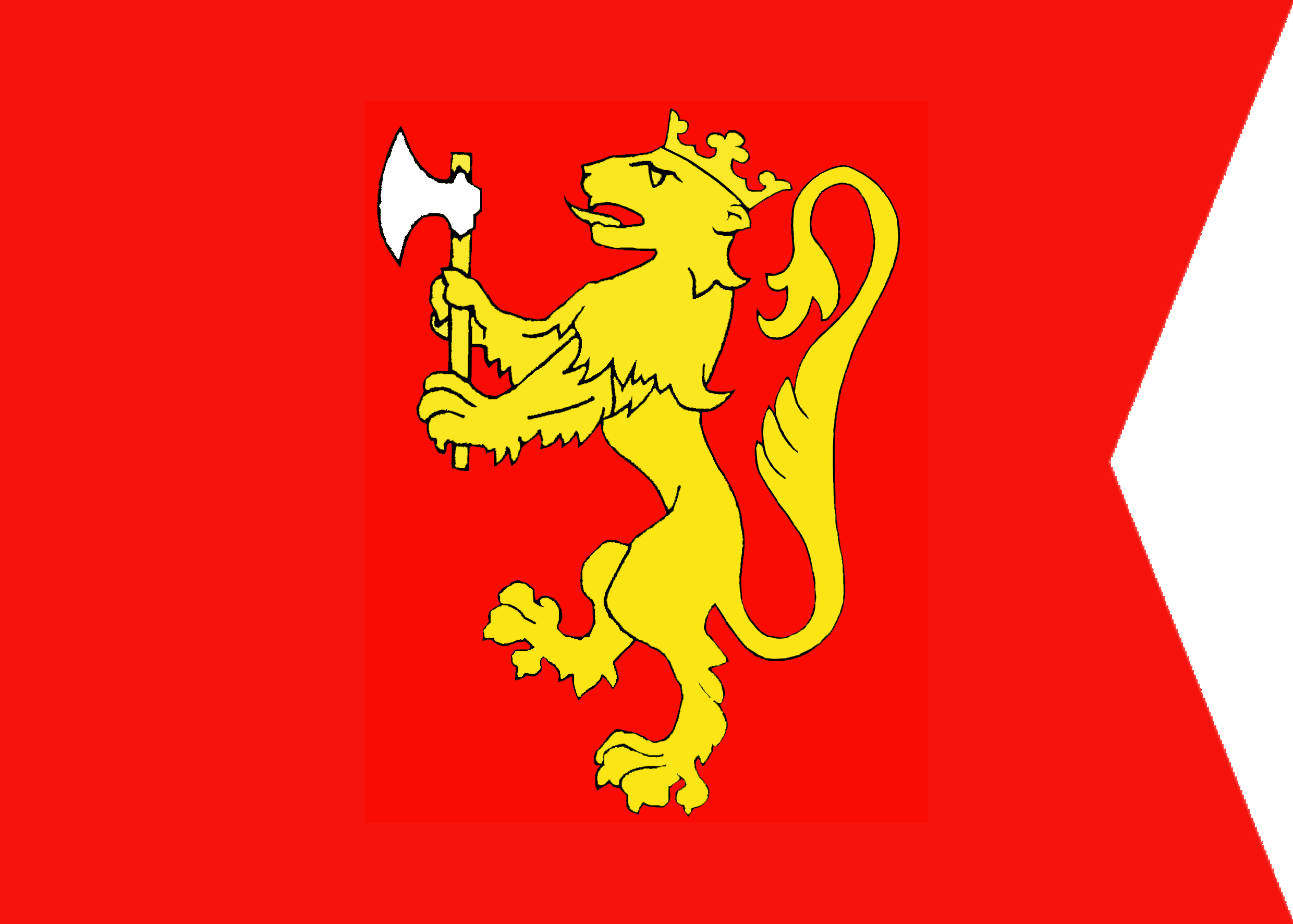 Flag of the crown prince of Norway introduced by Royal Resolution on 26 December 1924.